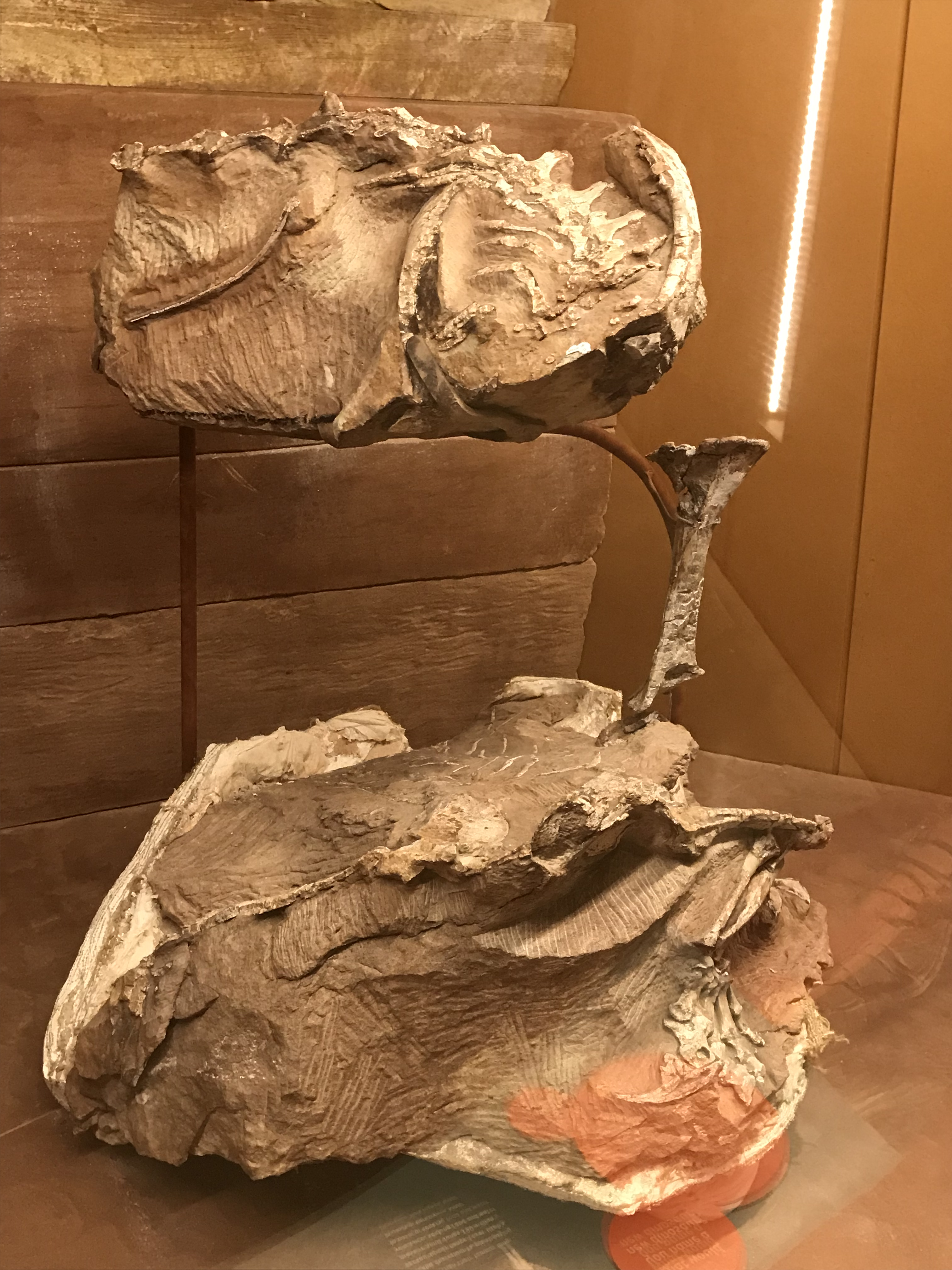 Beautiful fossil.